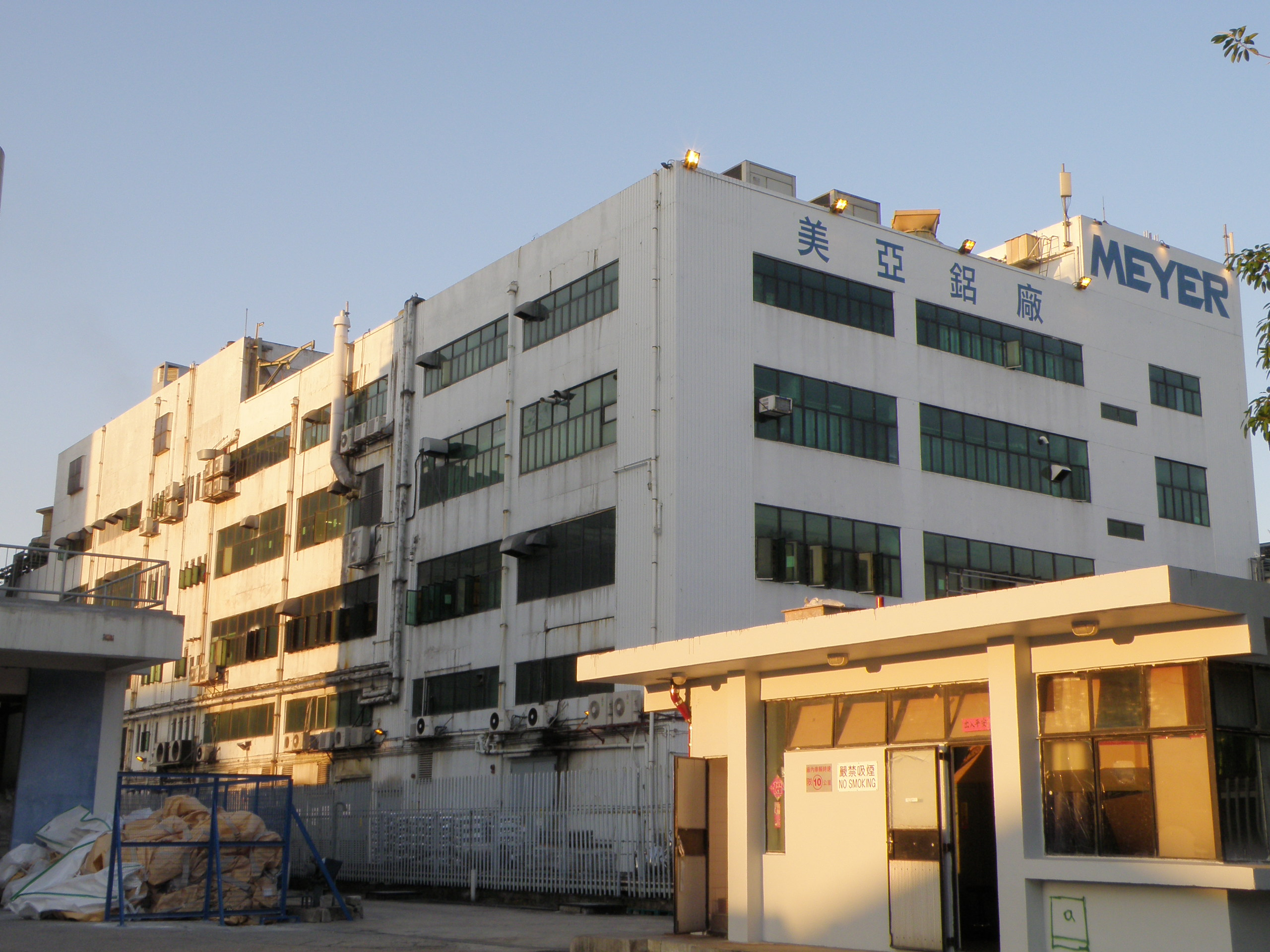 美亞廚具 Meyer Aluminium Limited in Tai Po, Hong Kong.